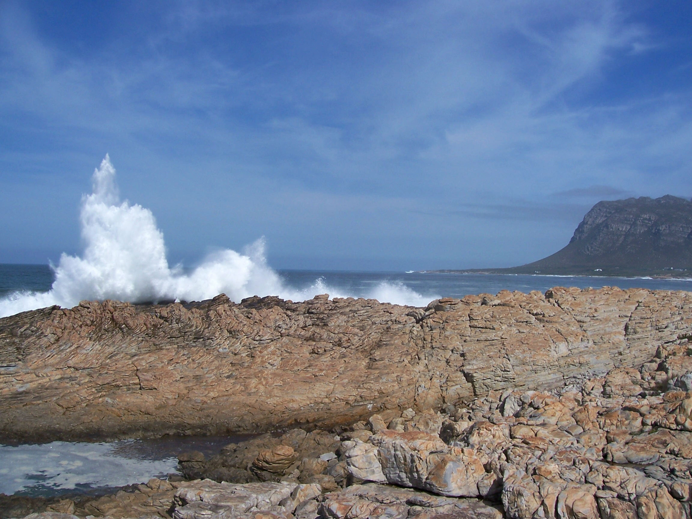 Bettysbay coastline, October 2006 Taken by myself, Andres de Wet, October 2006